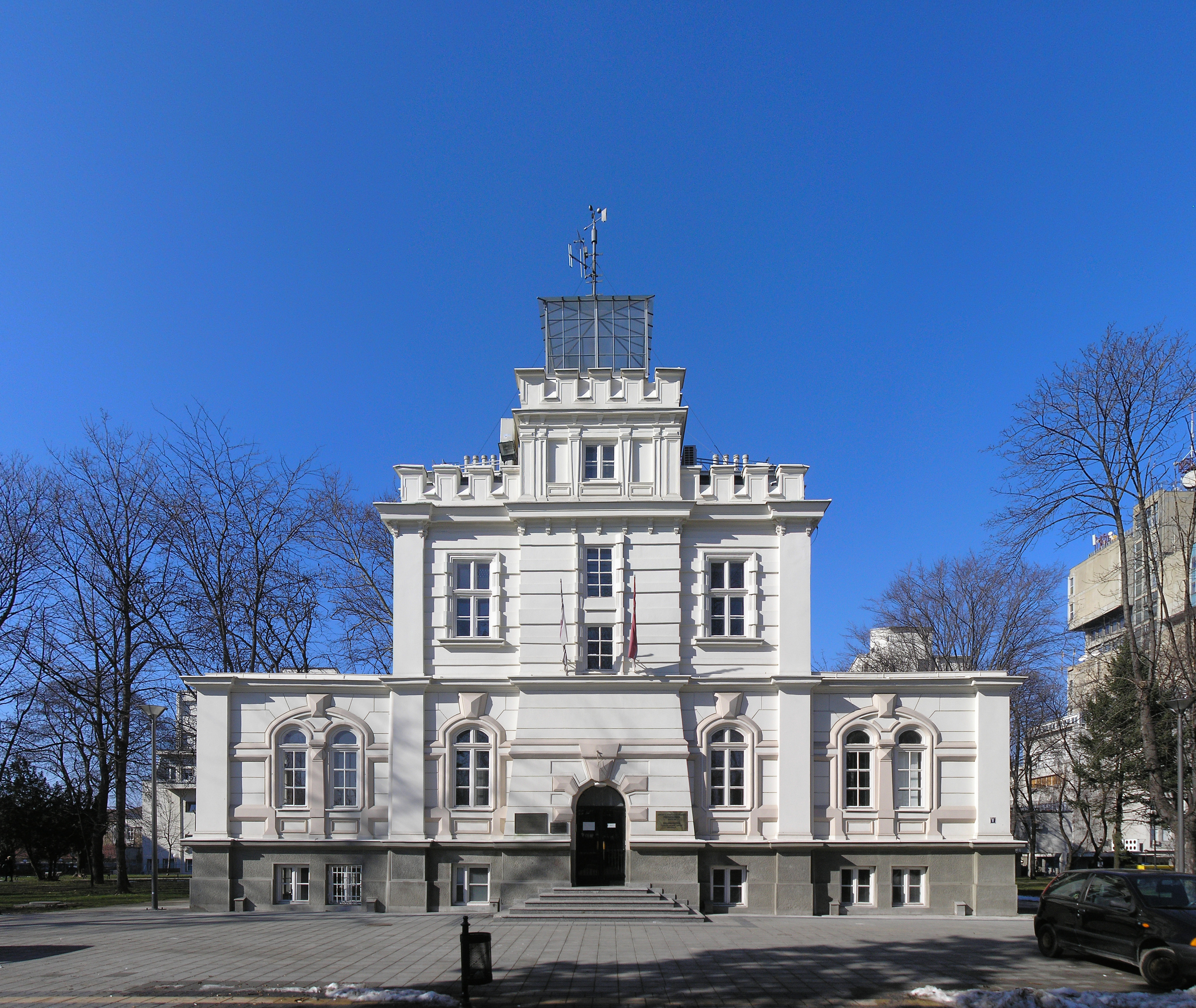 Centre for climate change "Milutin Milanković", in Belgrade.